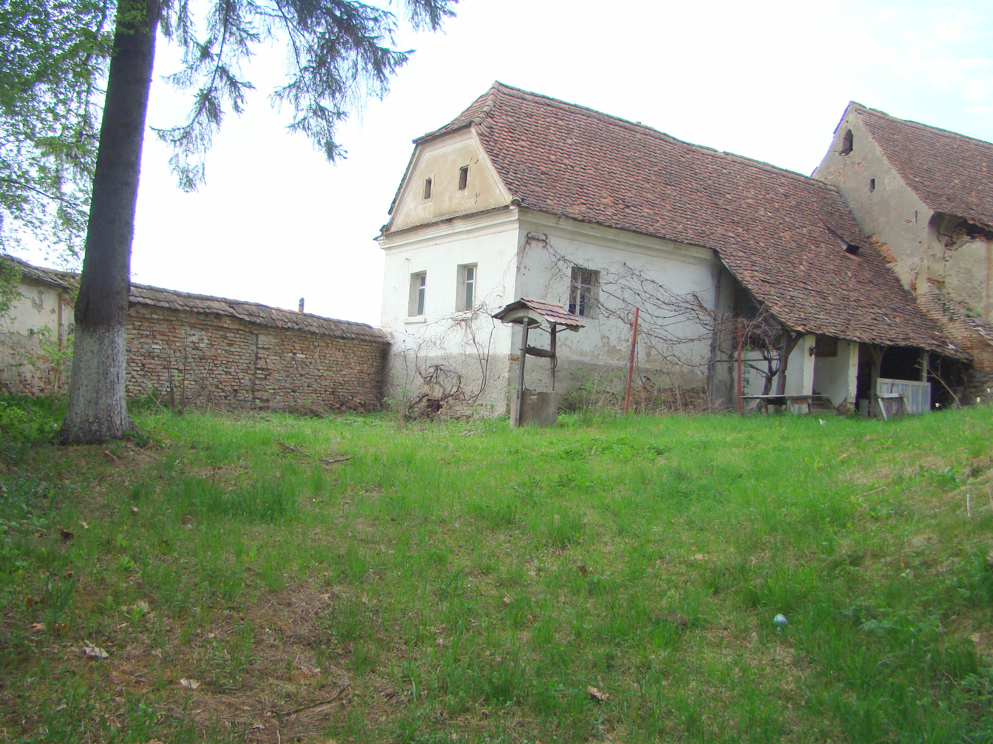 Lutheran church in Șaeș, Mureș county, Romania